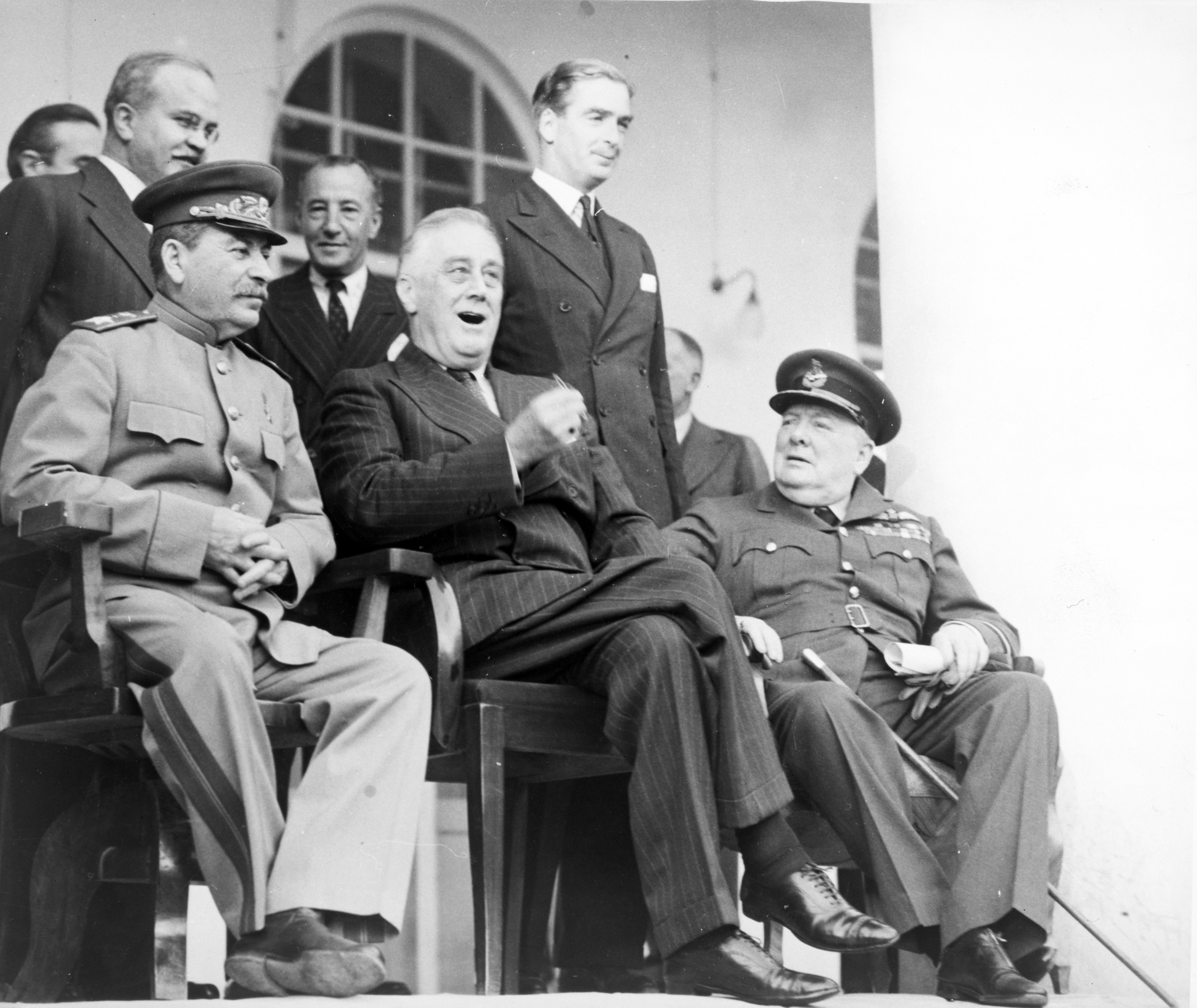 Joseph Stalin, President Roosevelt, and Winston Churchill, full-length portrait, sitting outside entrance to building during the Tehran Conference; Vyacheslav Mikhaylovich Molotov and Anthony Eden are standing in the background.